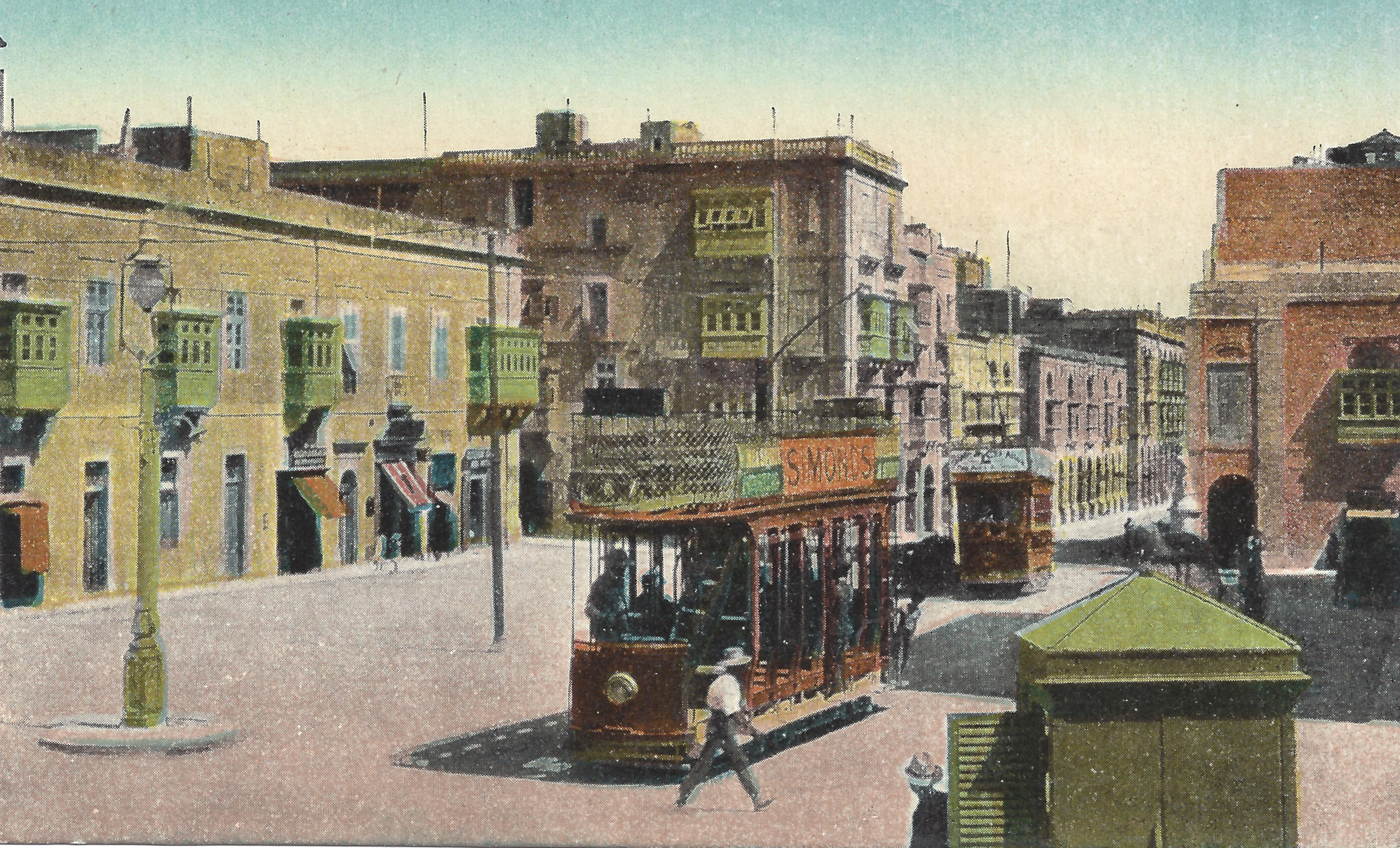 The picture shows a tram in the district Floriana in Valletta on the Piazza St. Anna. In December 1929, the tram was discontinued.